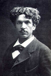 Charles Cros (1842–1888), French poet and inventor.